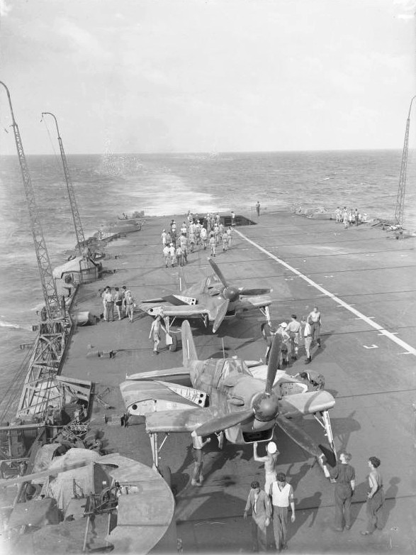 The Royal Navy during the Second World War- Madagascar, April - May 1942 Fairey Fulmar fighters on the flight deck of HMS FORMIDABLE part of the naval covering force for the Madagascar Operations. The covering force left from Colombo on 24 April 1942, arrived at the Seychelles to refuel on 1 May and after covering the operations at Madagascar returned to Mombasa on 10 May. Note the raised aerial masts on either side of the deck.